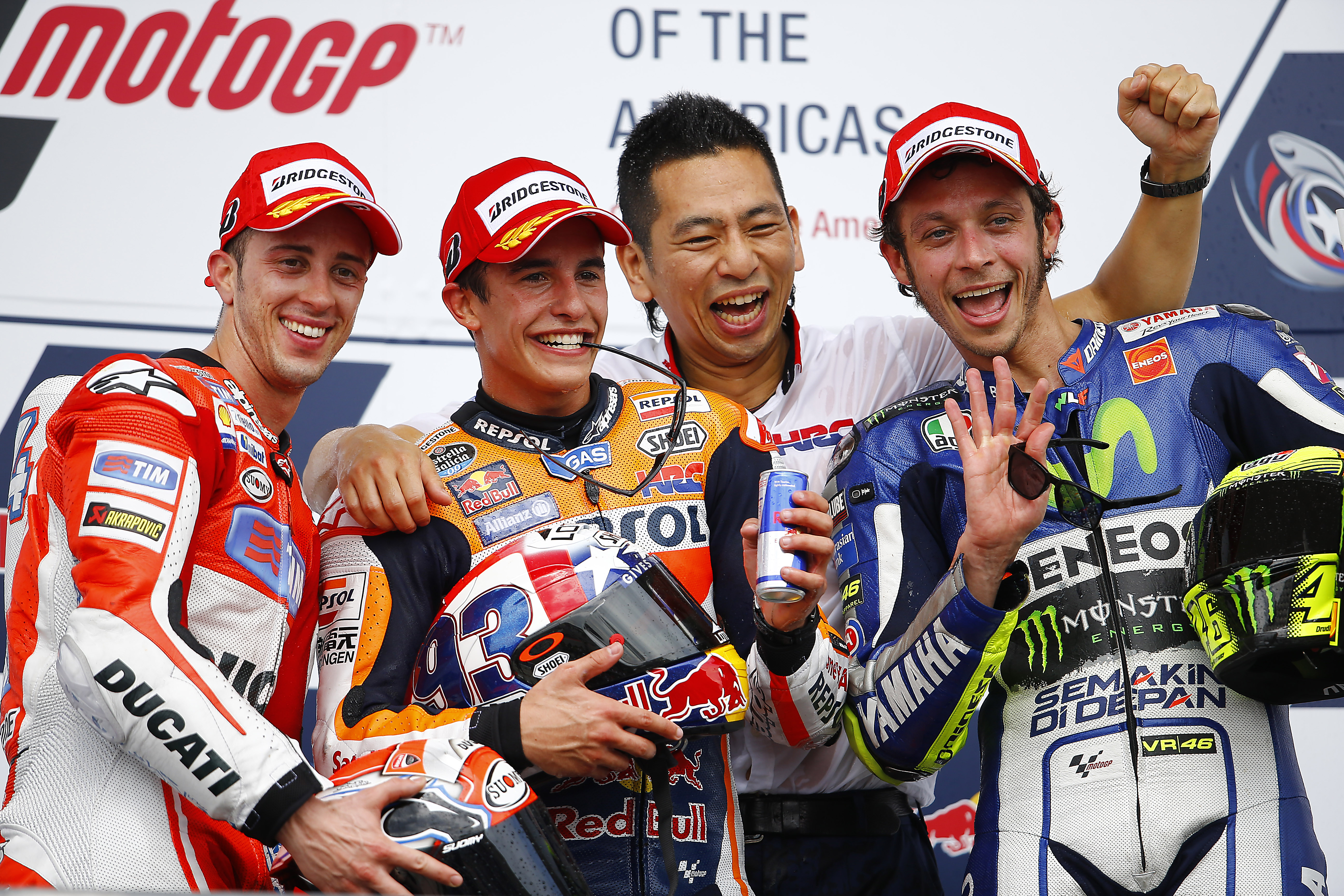 Andrea Dovizioso, Marc Márquez and Valentino Rossi, celebrating on the podium after finishing in second, first and third place at the 2015 Grand Prix of the Americas.